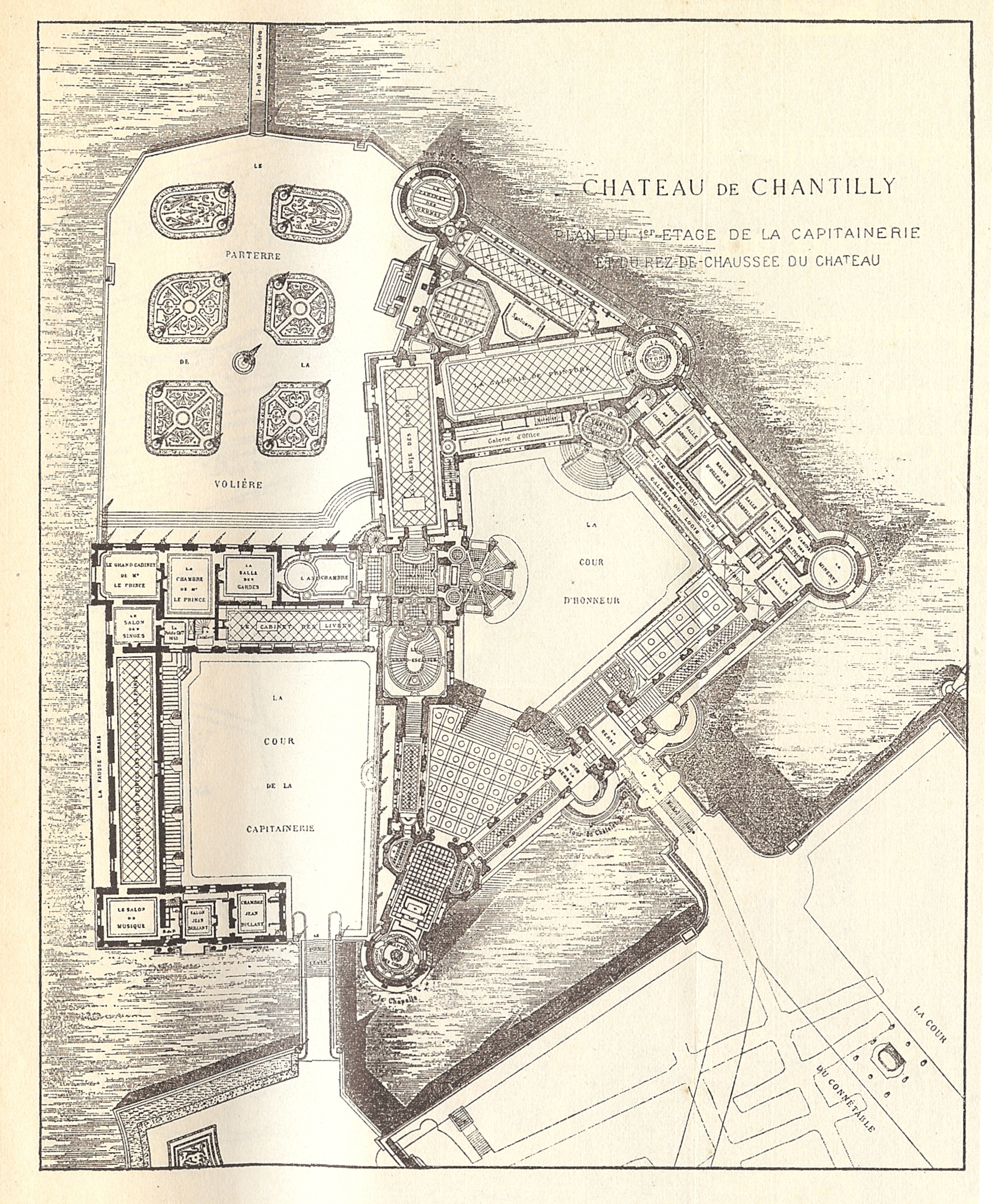 Plan of the Château de Chantilly, drawing by Honoré Daumet, architect of the castle